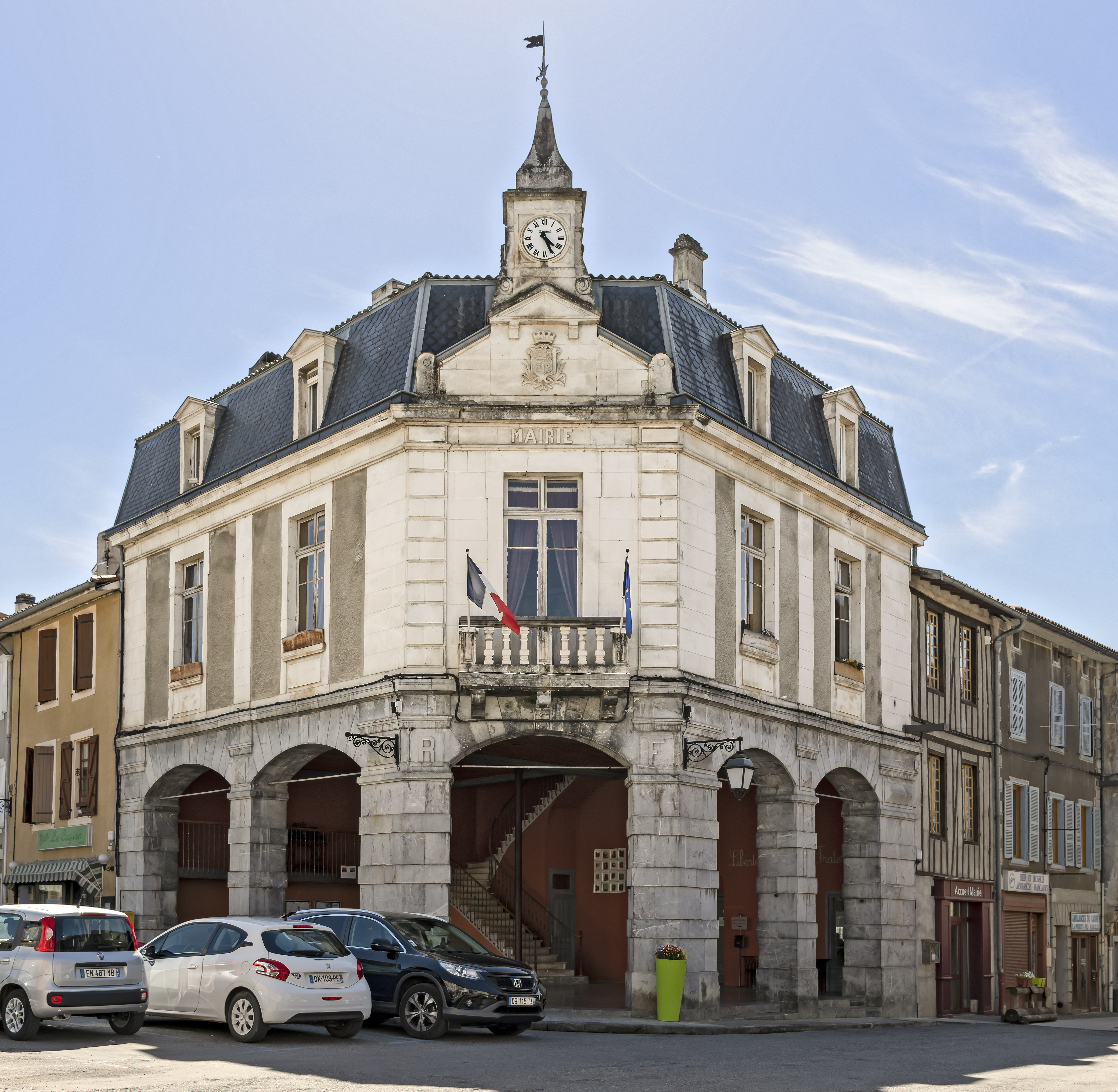 Town halll of Aspet, Haute-Garonne France.